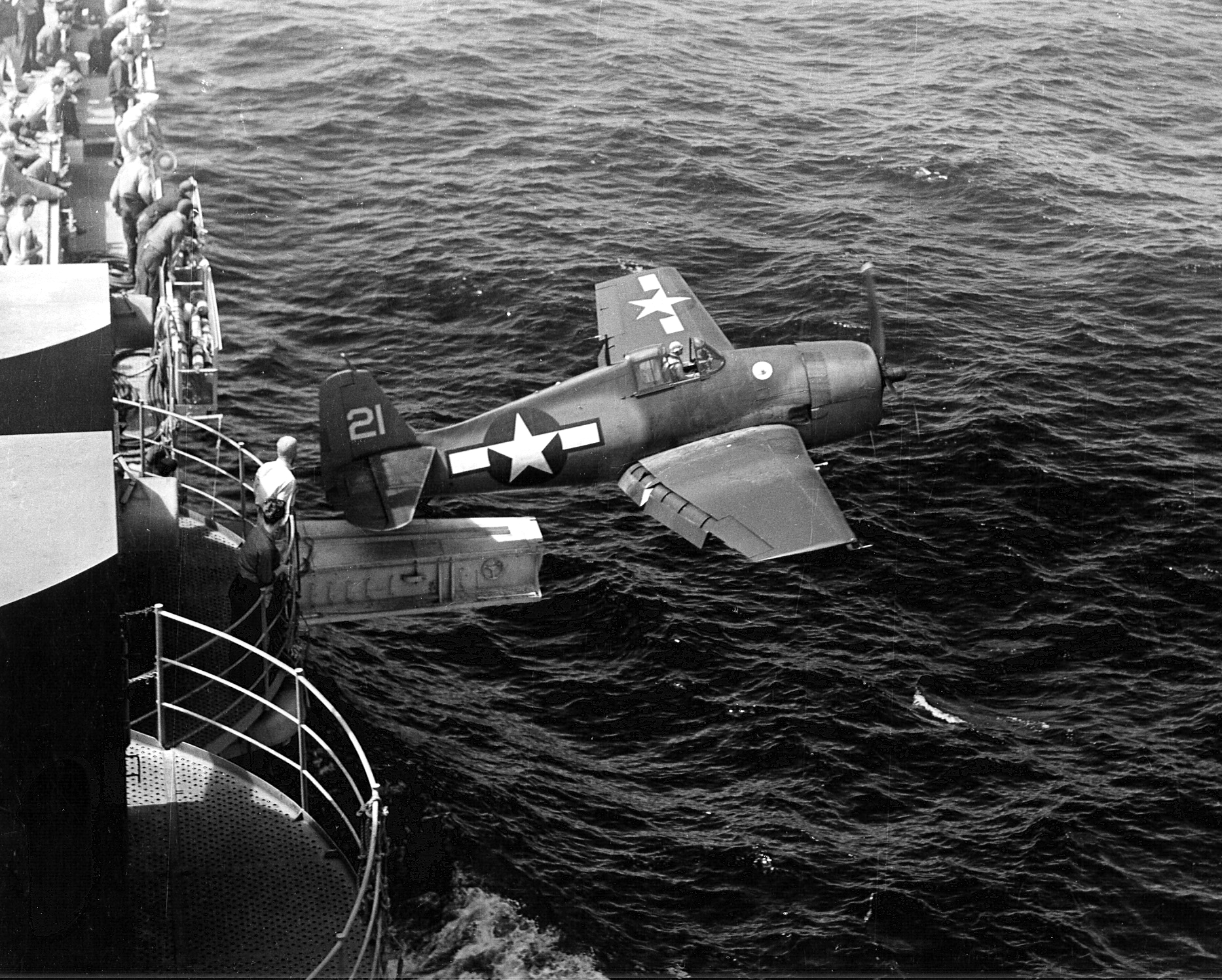 A U.S. Navy Grumman F6F-3 Hellcat fighter of fighting squadron VF-15 being catapulted from the aircraft carrier USS Hornet (CV-12) via the hangar catapult, 25 February 1944.